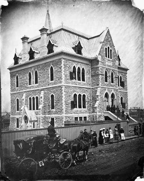 Modified version of an image from the Library and Archives of Canada image description page Reference Numbers: Accession: 1936-270 Reproduction: PA-008941 Use Reproduction Restrictions on use/reproduction: Nil Credit: Topley Studio Fonds / Library and Archives Canada / PA-008941 Category:Designated heritage properties in Ottawa